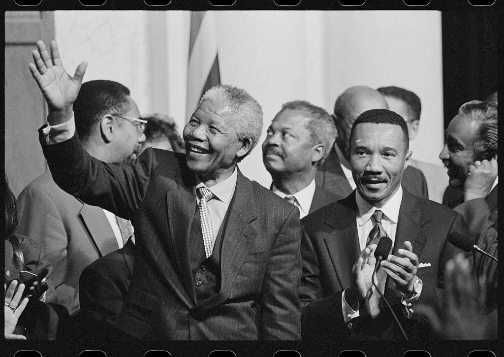 President of South Africa, Nelson Mandela with members of the Congressional Black Caucus including Representative Kweisi Mfume, at an event at the Library of Congress